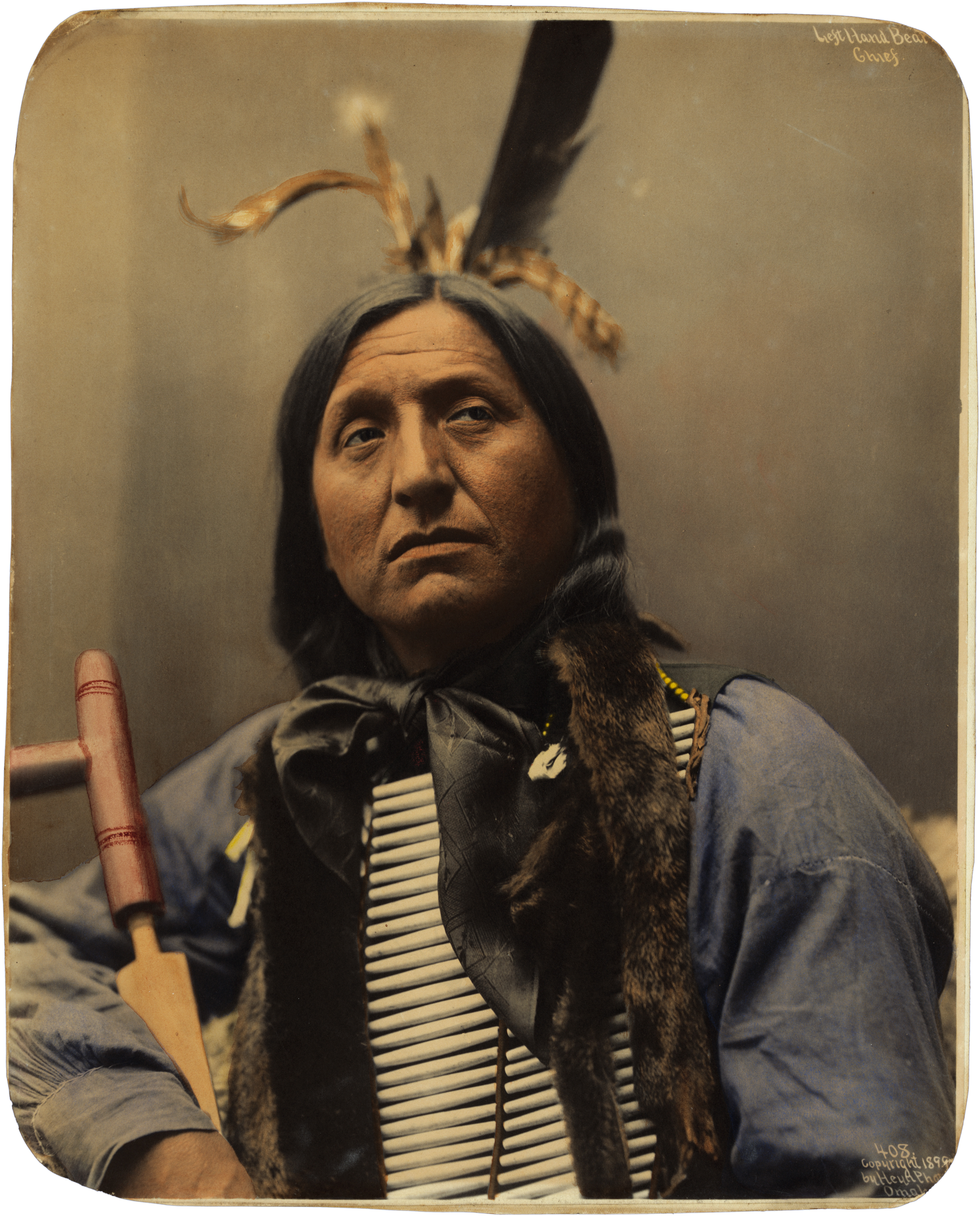 Left Hand Bear, Oglala Sioux chief. Fourth and last in a series of four hand-colored platinum prints gifted to the Library of Congress by David A. Rector.